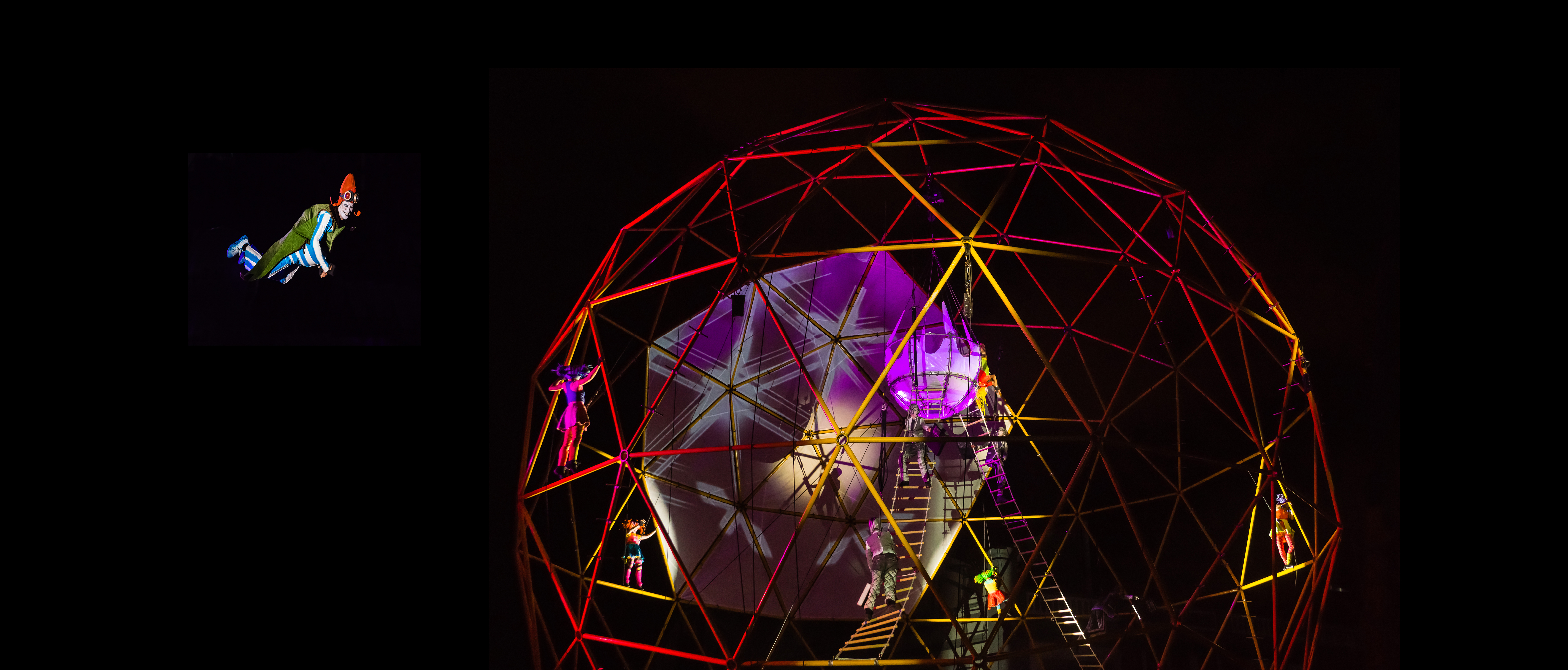 GLOBE visualises the art of liberty and proves flying as supreme happiness. The spectacle shows the childlike imagination as instrument to enables one to fly. Elders, while growing older, lost this devotion to simplicity: they don’t understand no more. Instead they envy the power of children and let themselves be seduced by superiors and try to crack down the children. They form an army and plan to ban their freedom and flying. But it’s impossible to win: the children turn to the eternal child Carlson who helps them to gain the sky and become untouchable. Forever the antagonists fight itself The scenery, a giant globe, is the energetic surrounding for aerialists, dancers, actors and musicians and projections. This stunning, visual performance won’t remain in its spectacular structure. When actors fly and float around and above the audience, Close-Act takes possession of the area.